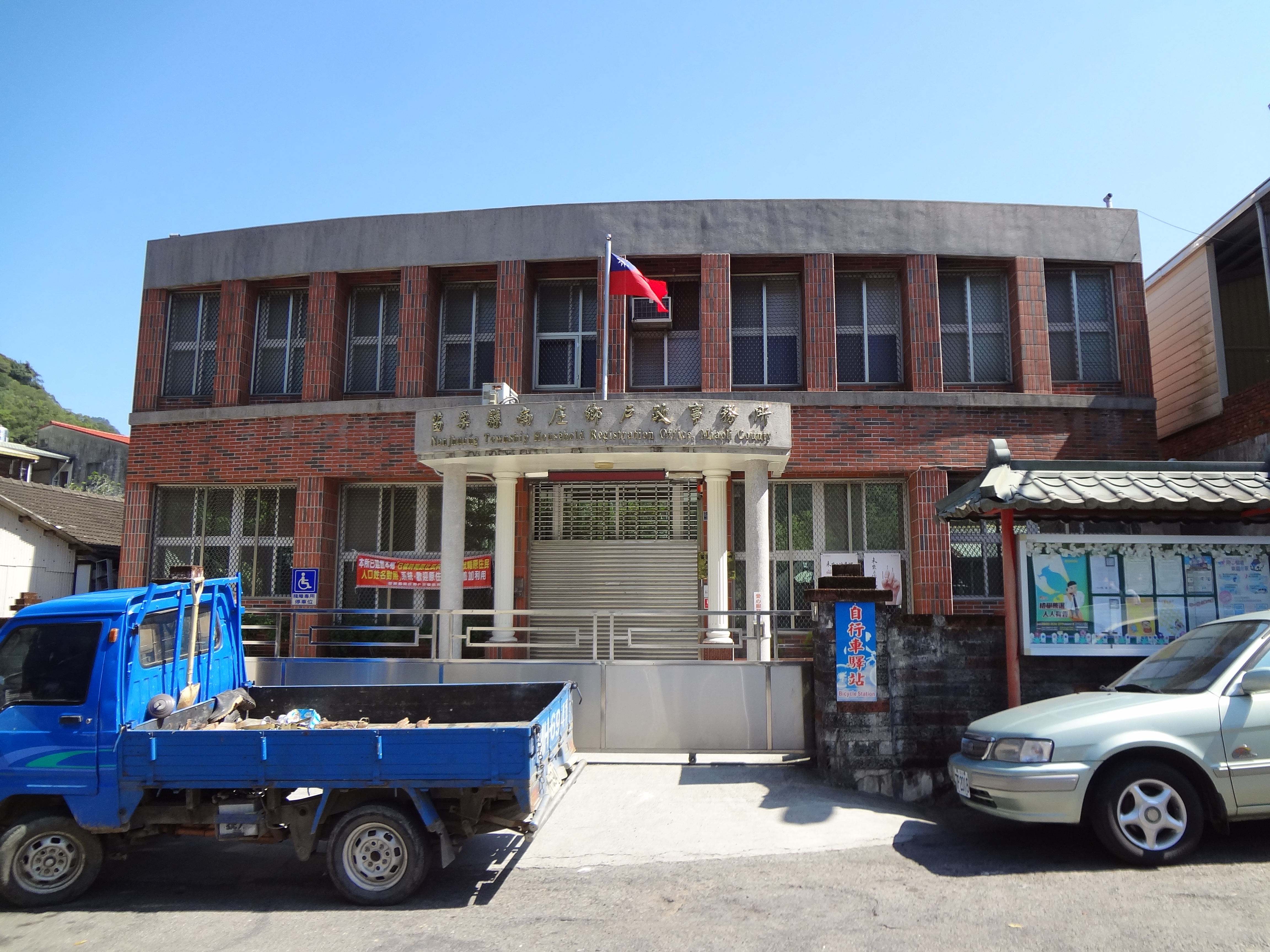 Nanjhuang Township Household Registration Office, Miaoli County.